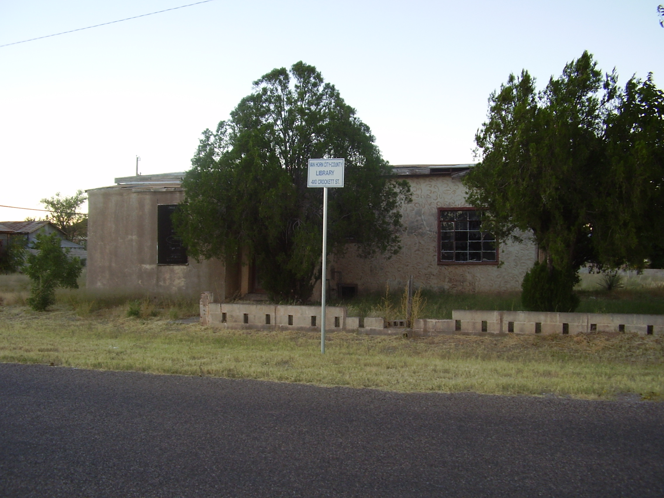 Former Capehart Residence on La Caverna (State Hwy 54)